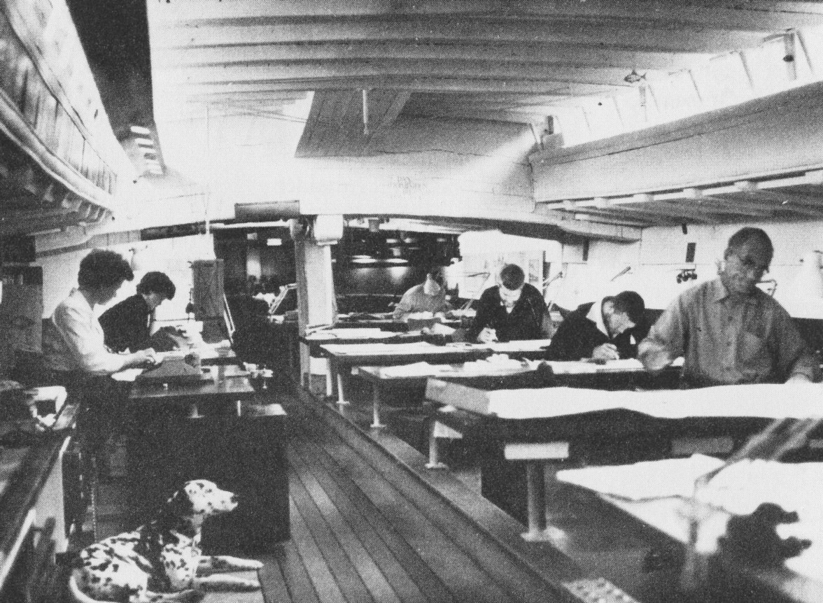 The Thames barge "Verona" was the first office of architect Ralph Erskin and his companion Aage Rosenvold.